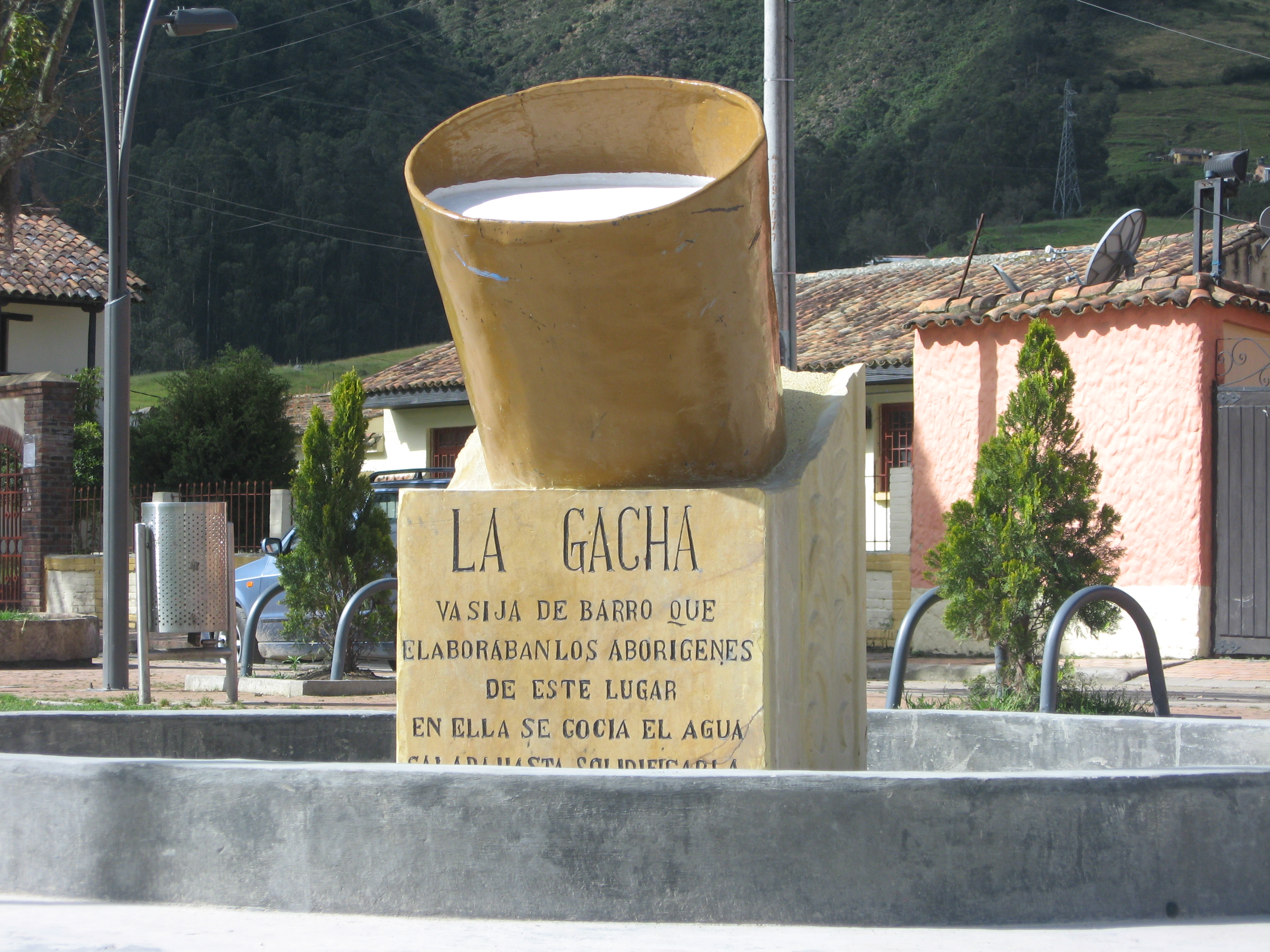 La Gacha